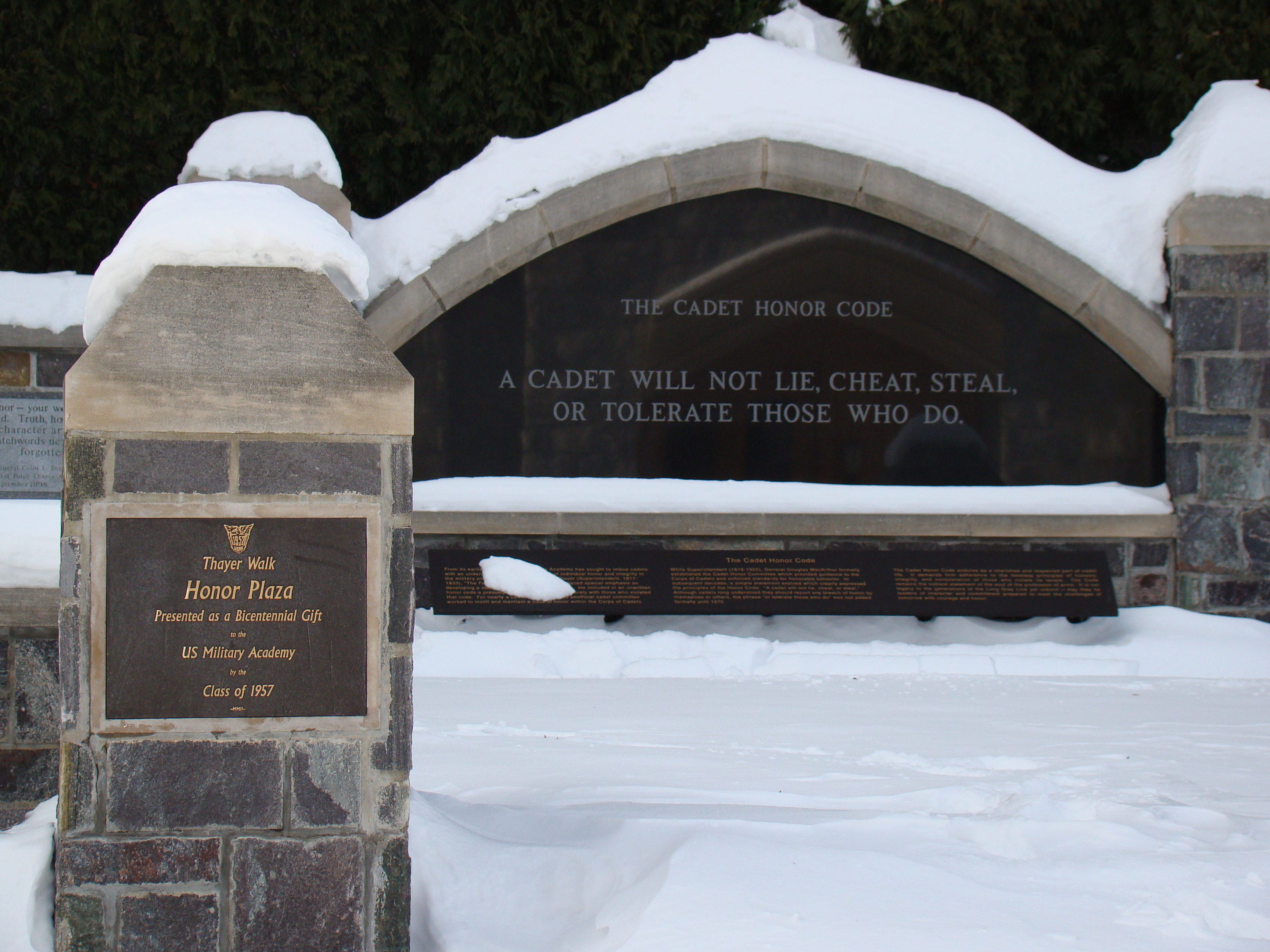 Class of '57 Honor Plaza at the east end of Eisenhower Barracks, West Point, NY